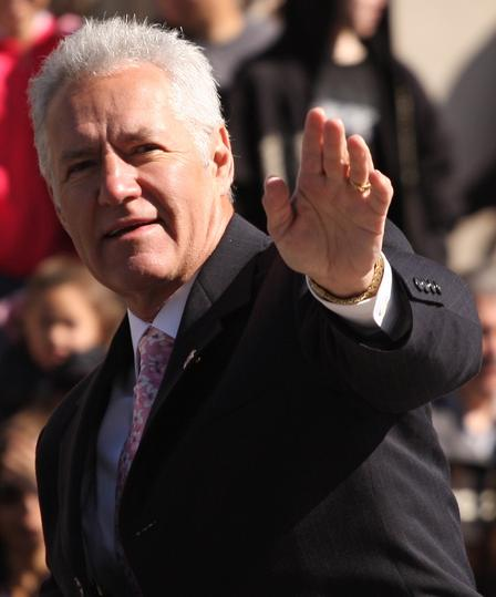 Alex Trebek in 2009.